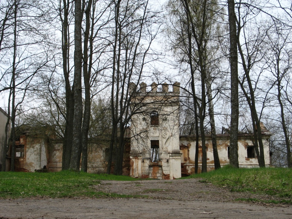 Manor of Maniuszka, Smilaviczy, Bielarus